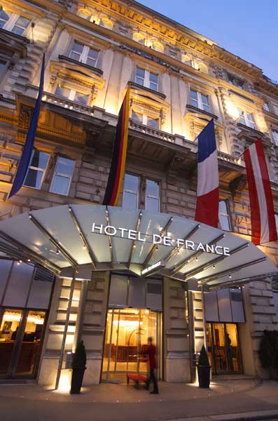 Hotel de France, Vienna